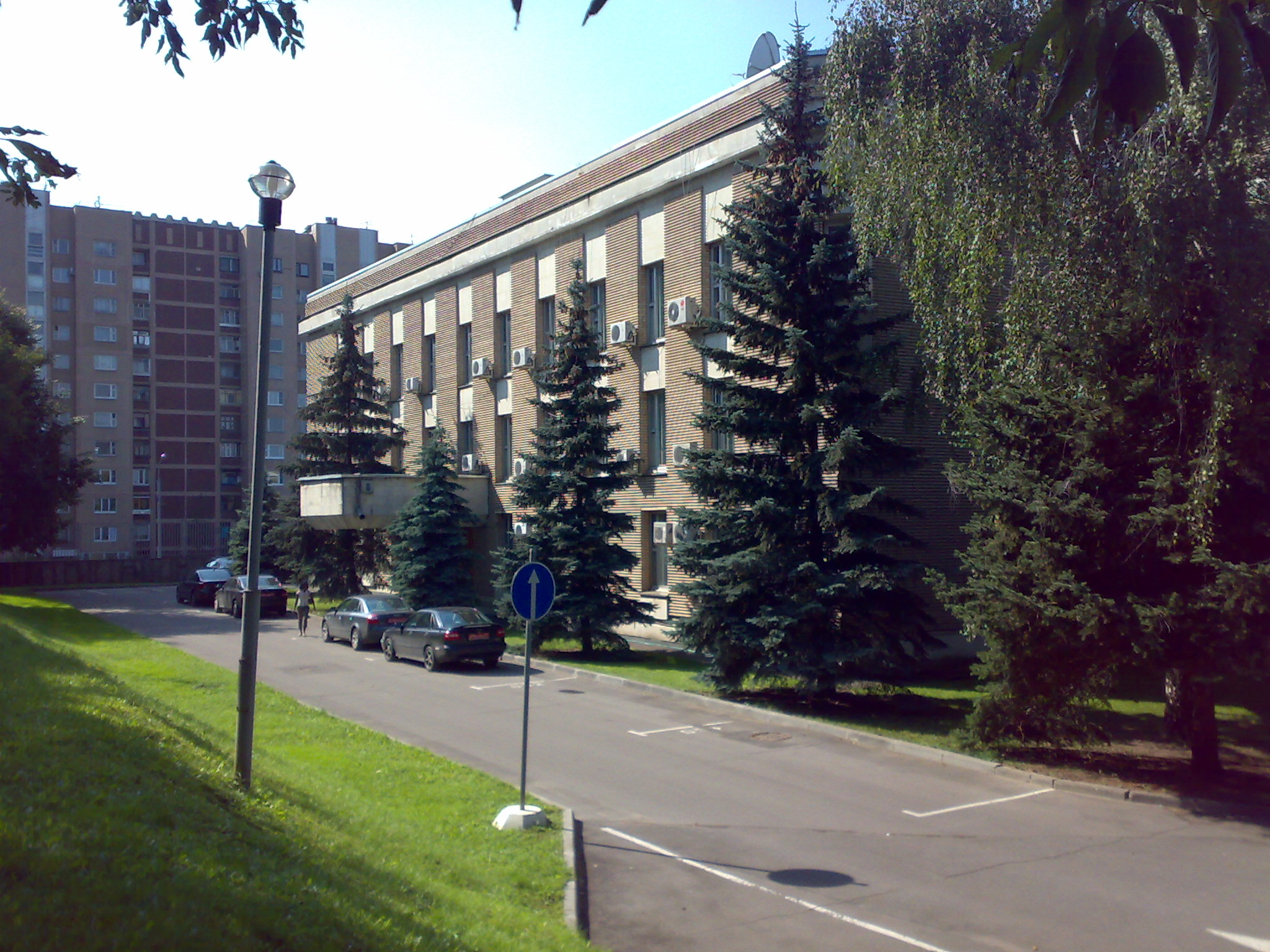 Embassy of Angola in Russia - took this image using my mobile phone, on September 4, 2008.